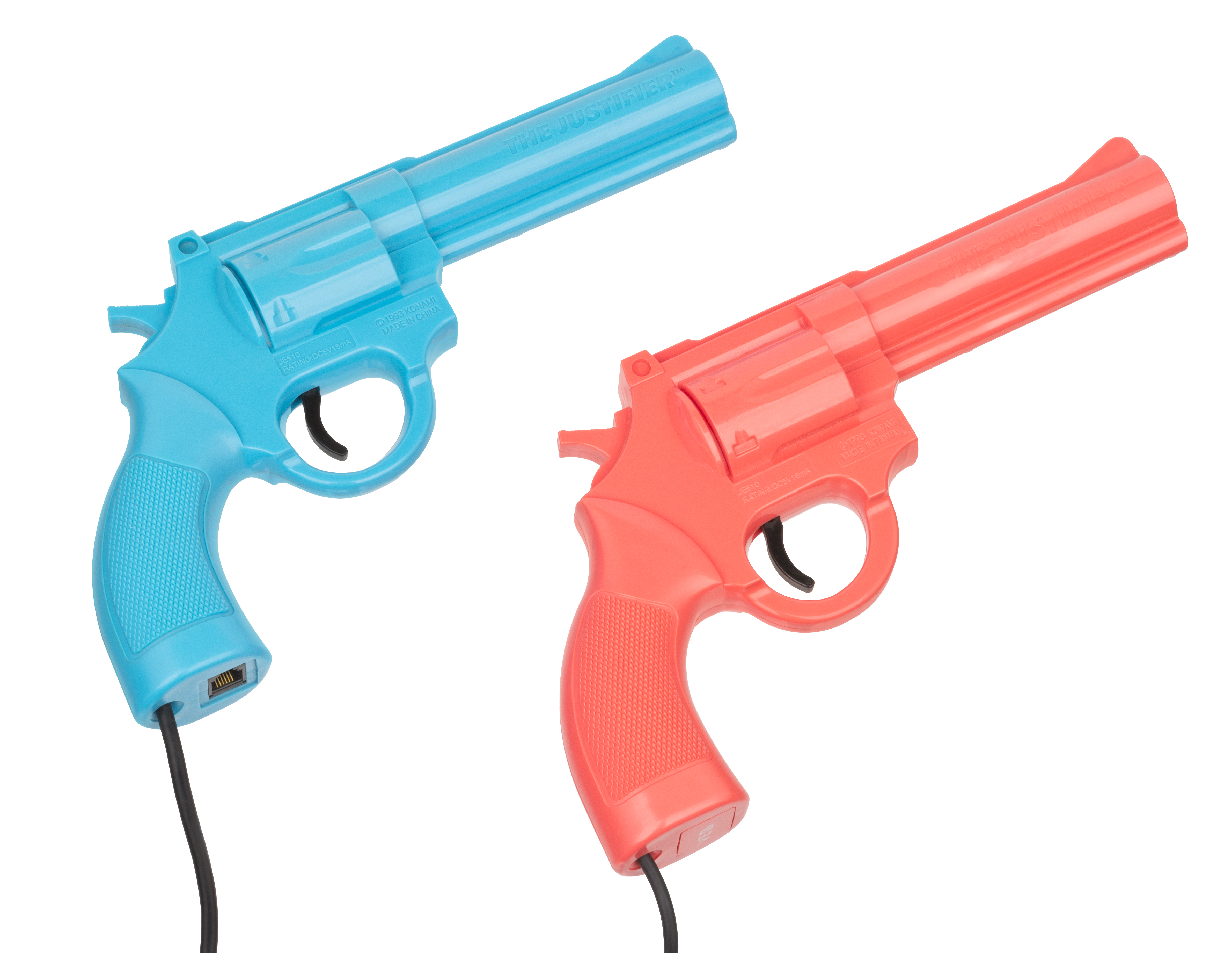 The Justifier light gun controllers for the Sega Genesis, released by Konami for its Lethal Enforcers video game. The blue gun is the first player controller that was sold with the game, while the pink is the second controller that was sold separately and plugged into the bottom of the first controller.